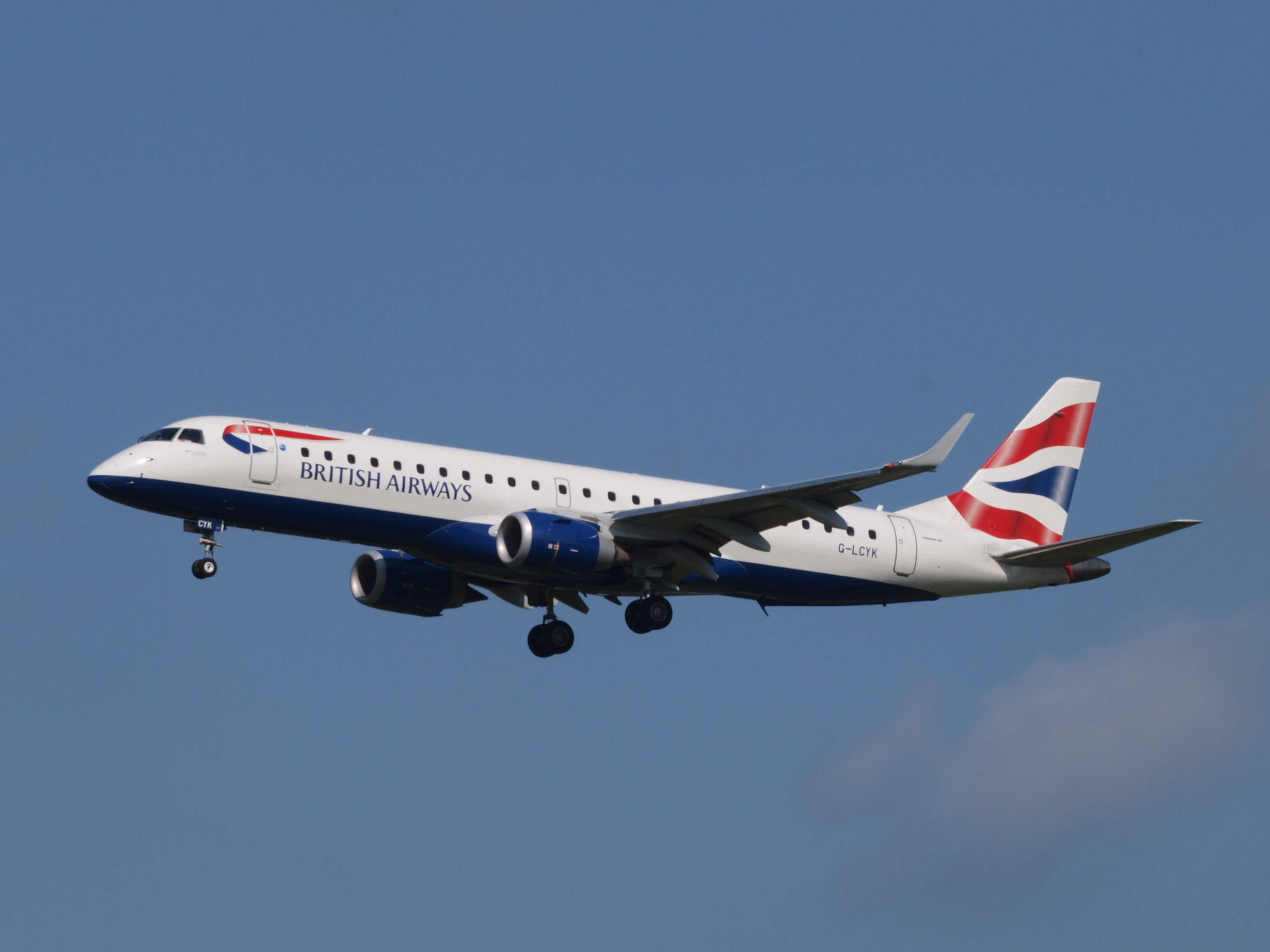 Photographed at Amsterdam airport Schiphol, the Netherlands. OLYMPUS DIGITAL CAMERA